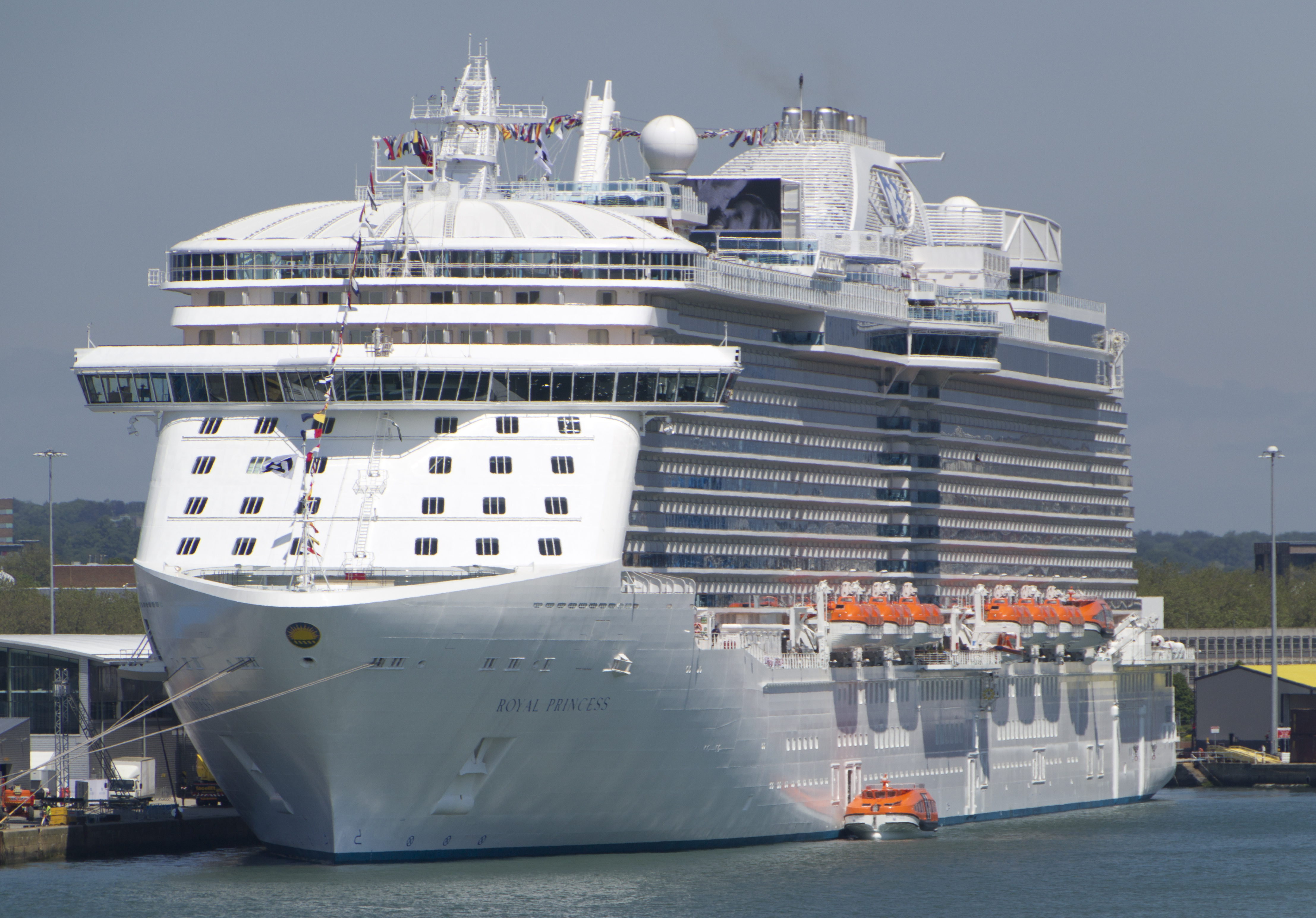 The Royal Princess cruise liner at Southampton Docks